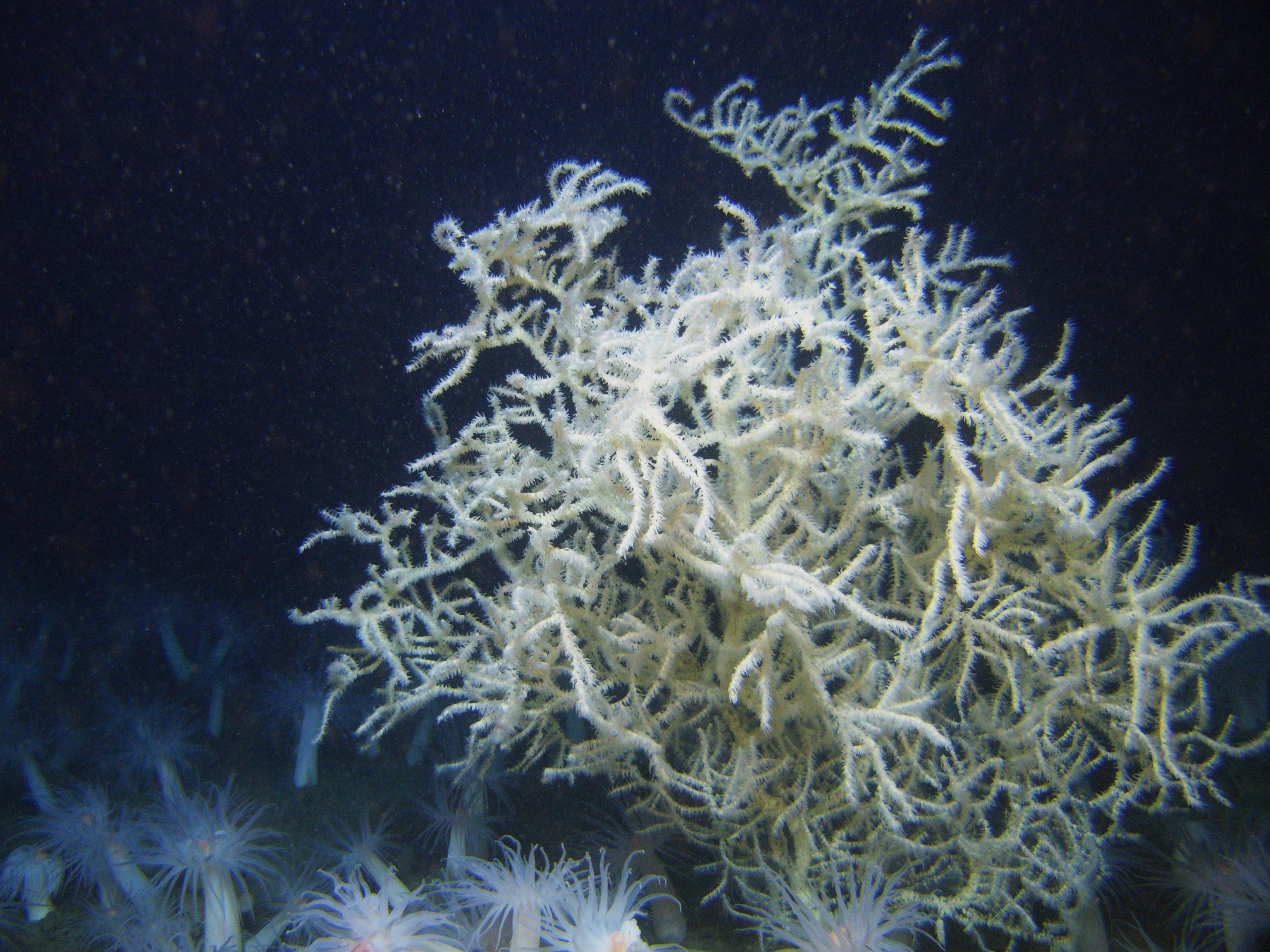 Deep sea coral. White "black coral" Leiopathes glaberrima. Stand of large white anemones with orange mouth (Actinostola sp.?)